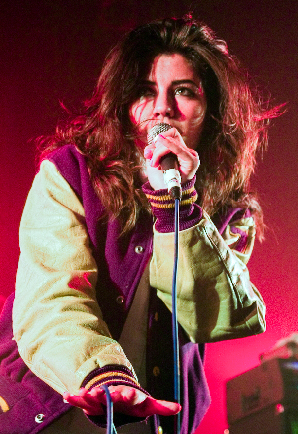 Marina & the Diamonds live at NME Radar Tour (October 3, 2009)